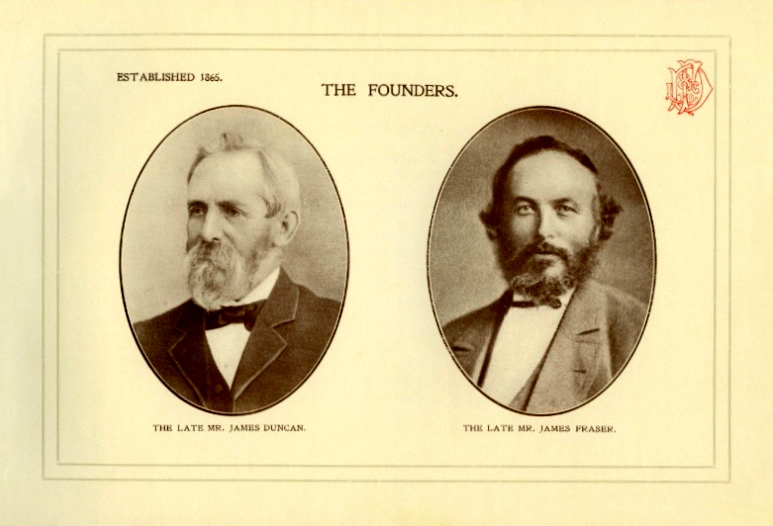 A photo of two bearded men, titled "The founders" and named as "The late Mr James Duncan" and "The late Mr James Fraser" from a Duncan and Fraser Limited company handbook of 1919.